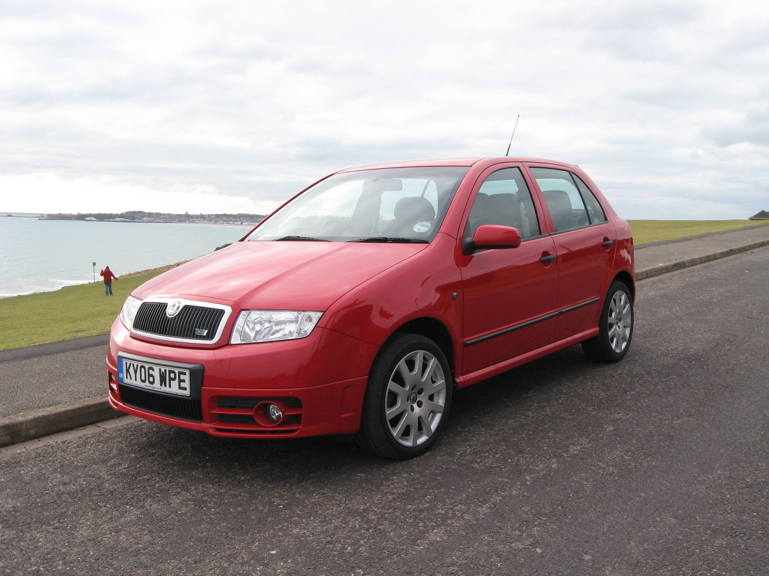 My Fabia vRS in February 2010 when it as being prepared to sell (I had already bought a race blue Octavia vRS by this time). It was a great but underrated fun car, and economical too...